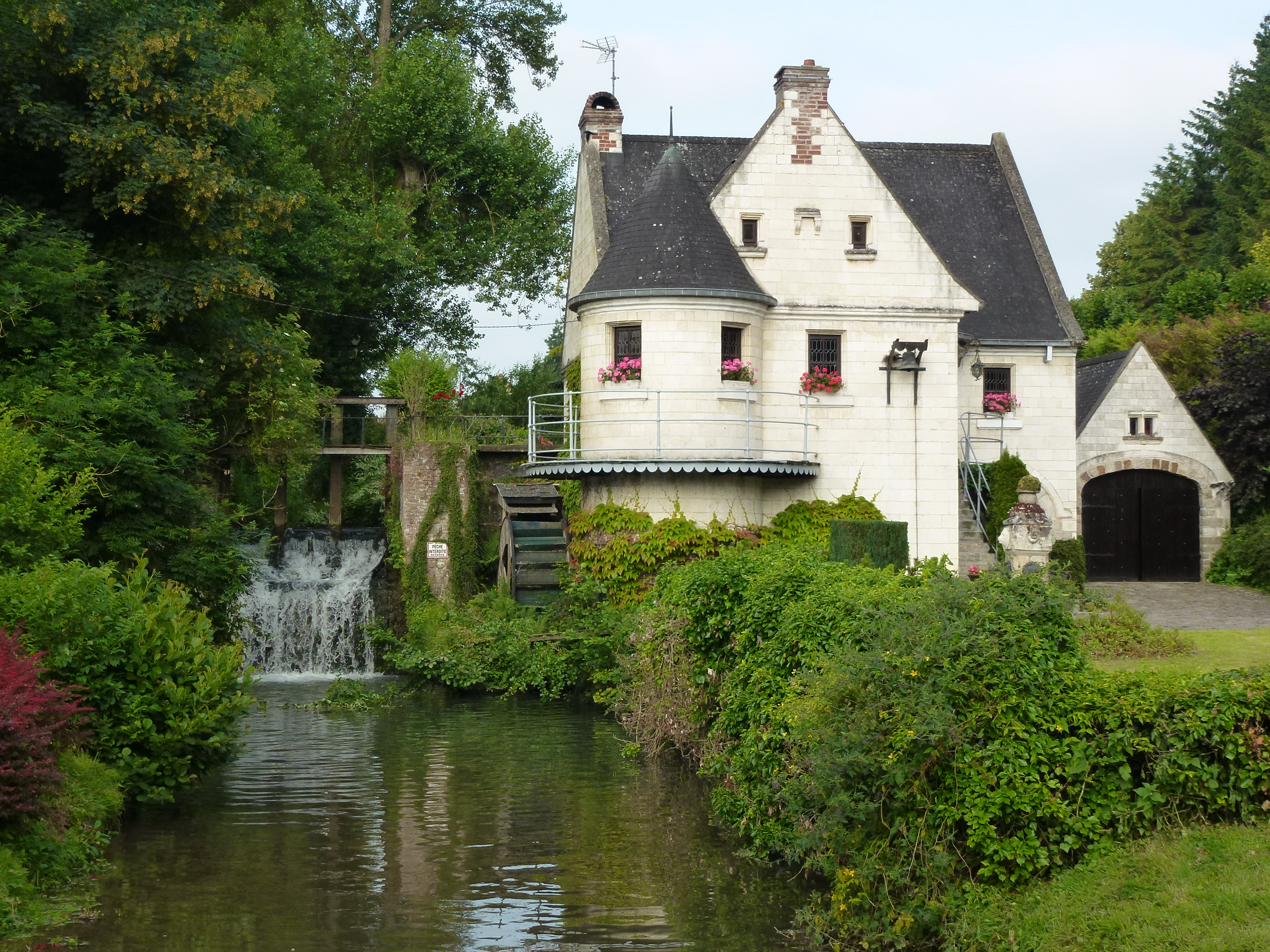 Enquin-les-Mines (Pas-de-Calais, Fr) moulin espagnol sur la Laquette